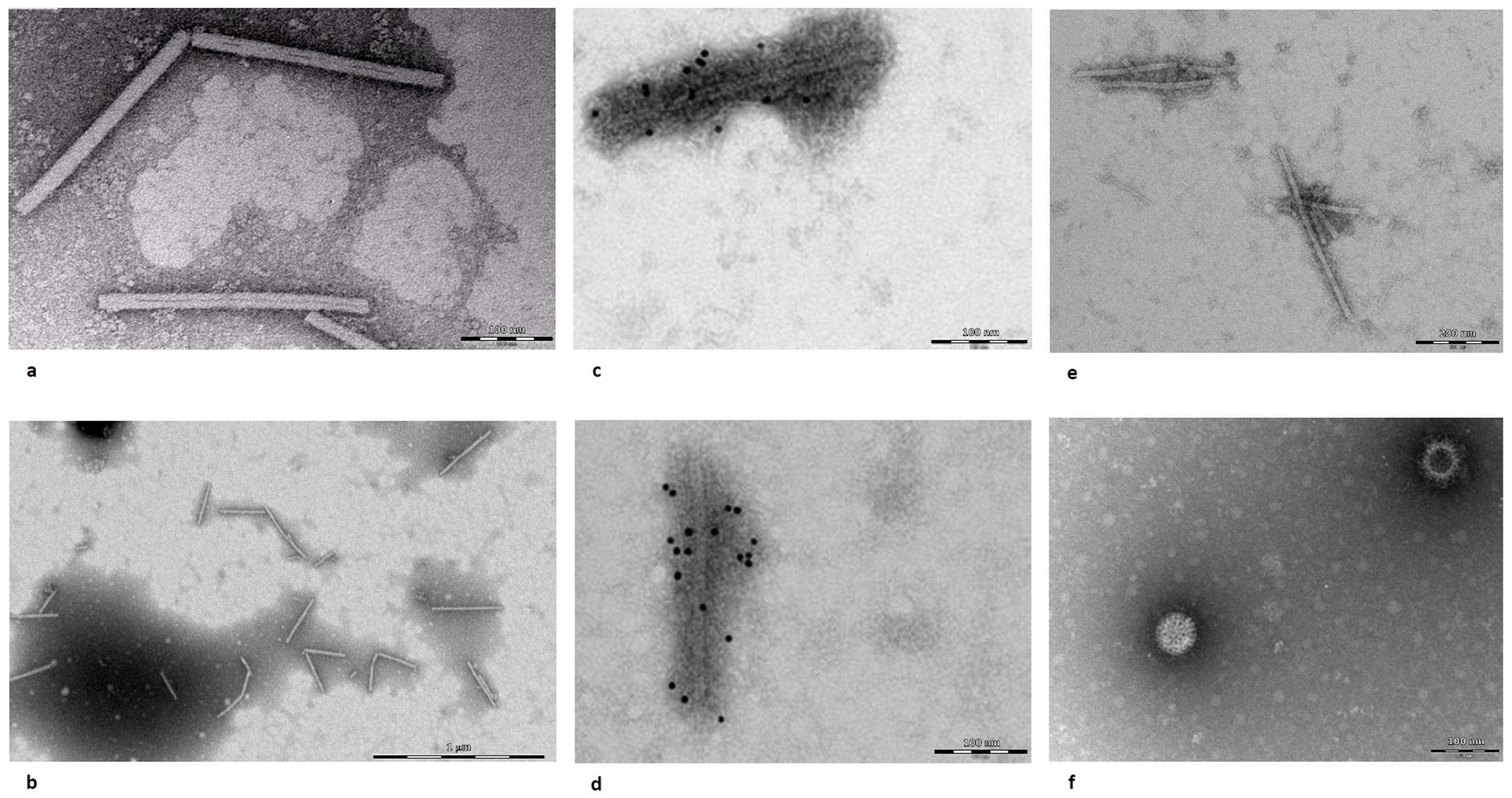 samples analyzed by electron microscopy: (a) Tabasco sauce; (b) PMMoV purified from Tabasco sauce. The samples analyzed following immunogold staining were: (c) PMMoV purified from Tabasco sauce; (d) a PMMoV-RNA positive patient's stool sample; (e) PMMoV purified from Tabasco sauce stained with antibodies from a non immunized mouse (negative control no.1) (f) a rotavirus-positive sample (negative control no.2).